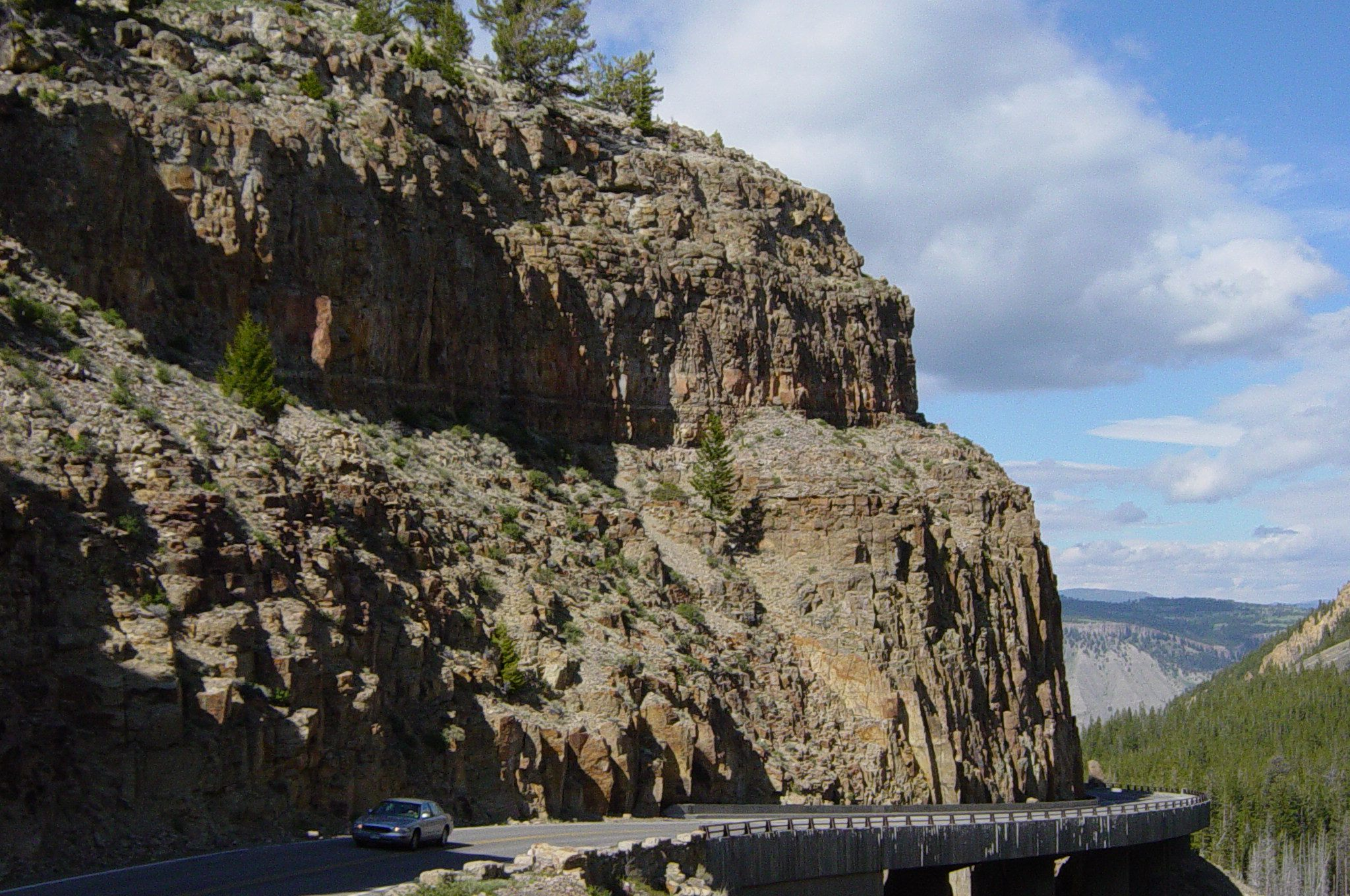 Photo taken in the Yellowstone area.